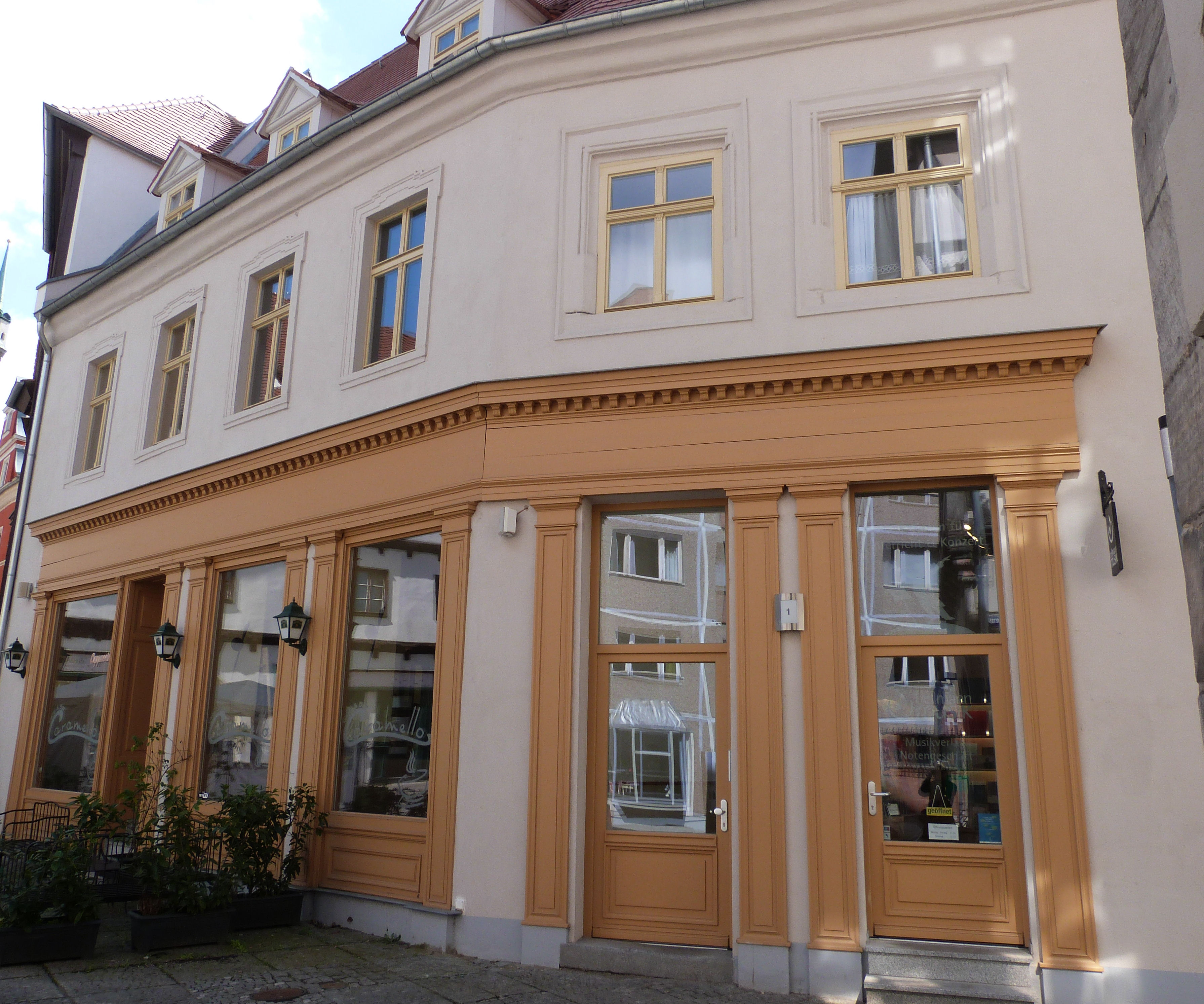 House No. 1, Graseweg, Halle (Saale)